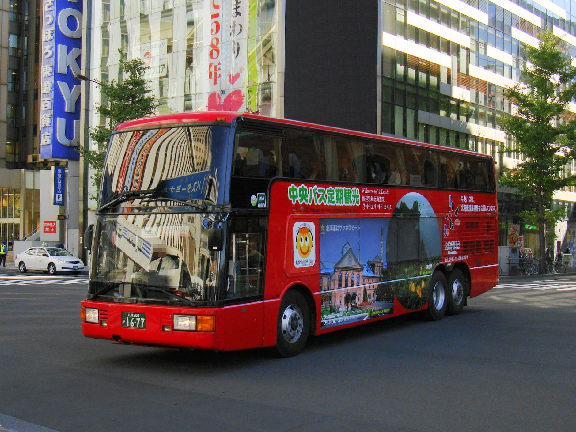 Sapporo sightseeing course